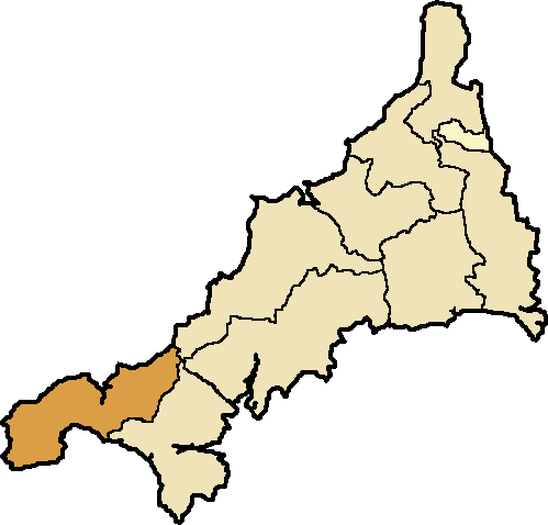 Penwith Pennwydh